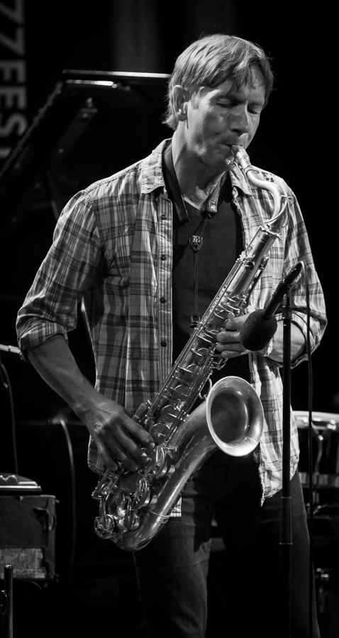 Morten Halle performs with Cutting Edge at the stage of Nasjonal Jazzscene Victoria. The concert was part of the Oslo Jazz Festival in Norway and took place on 17. August 2016. Lineup:Rune Klakegg (keyboard)Morten Halle (tenor saxophone)Knut Værnes (guitar)Edvard Askeland (bass guitar)Frank Jakobsen (drums)Stein Inge Brækhus (drums)